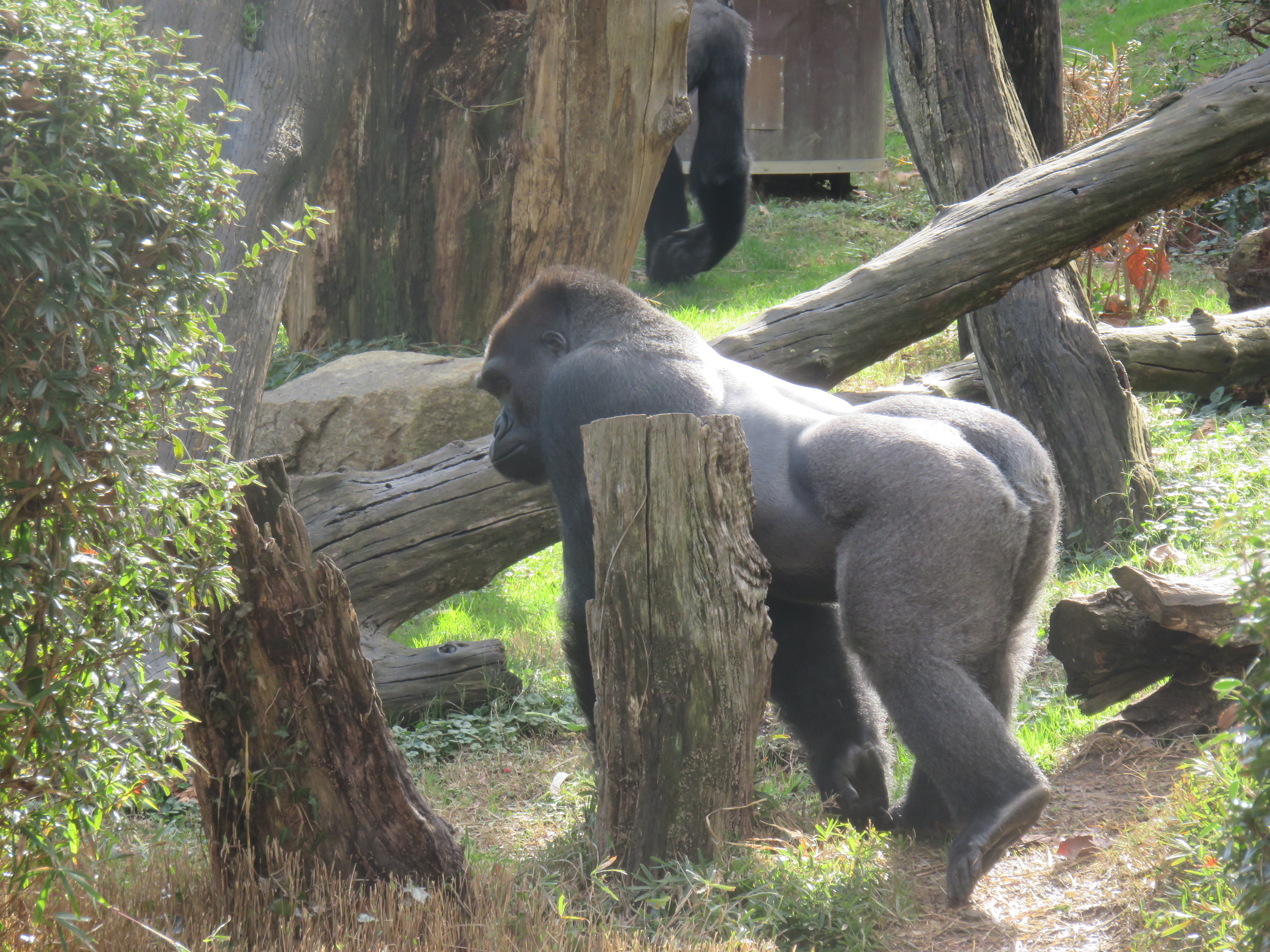 Gorilla at the National zoo